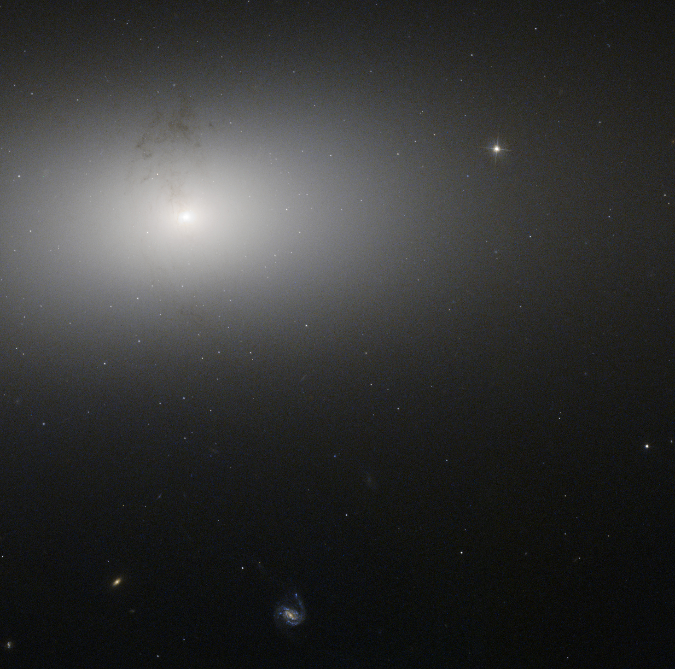 The soft glow in the picture above is NGC 2768, an elliptical galaxy located in the northern constellation of Ursa Major (The Great Bear). It appears here as a bright oval on the sky, surrounded by a wide, fuzzy cloud of material. This image, taken by the NASA/ESA Hubble Space Telescope, shows the dusty structure encircling the centre of the galaxy, forming a knotted ring around the galaxy’s brightly glowing middle. Interestingly, this ring lies perpendicular to the plane of NGC 2768 itself, stretching up and out of the galaxy. The dust in NGC 2768 forms an intricate network of knots and filaments. In the centre of the galaxy are two tiny, S-shaped symmetric jets. These two flows of material travel outwards from the galactic centre along curved paths, and are masked by the tangle of dark dust lanes that spans the body of the galaxy. These jets are a sign of a very active centre. NGC 2768 is an example of a Seyfert galaxy, an object with a supermassive black hole at its centre. This speeds up and sucks in gas from the nearby space, creating a stream of material swirling inwards towards the black hole known as an accretion disc. This disk throws off material in very energetic outbursts, creating structures like the jets seen in the image above. A version of this image was entered into the Hubble's Hidden Treasures image processing competition by contestant Judy Schmidt. One of her images, of newborn star XZ Tauri, was awarded third prize.